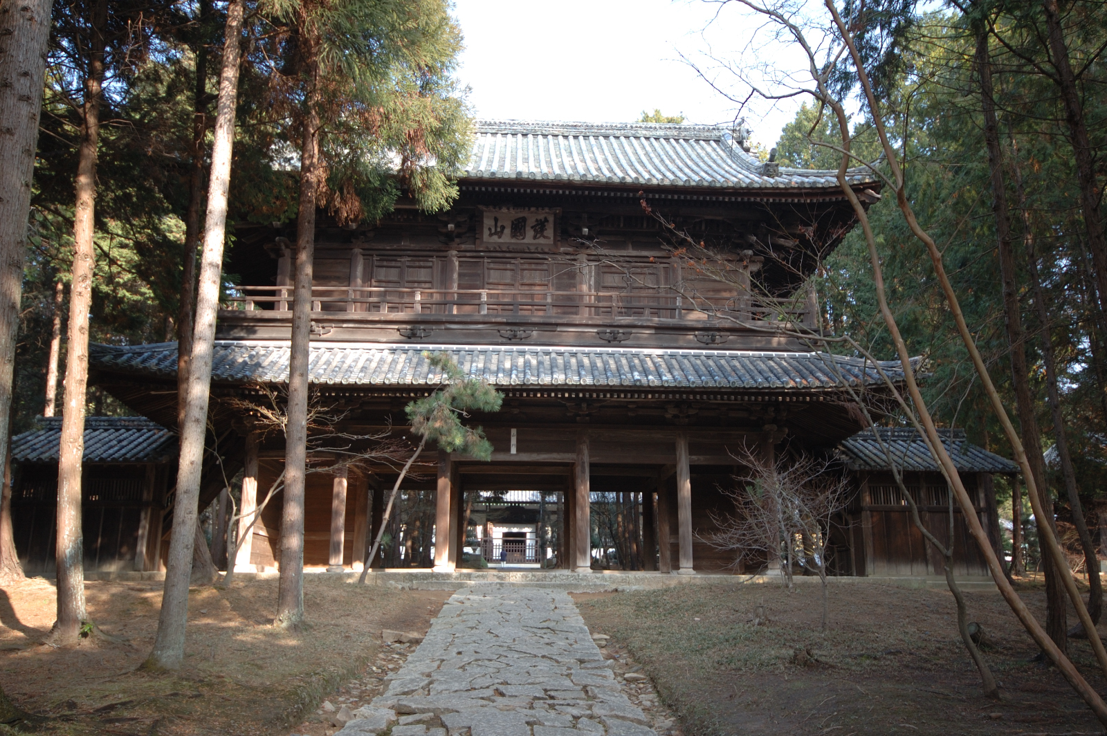 the main gate